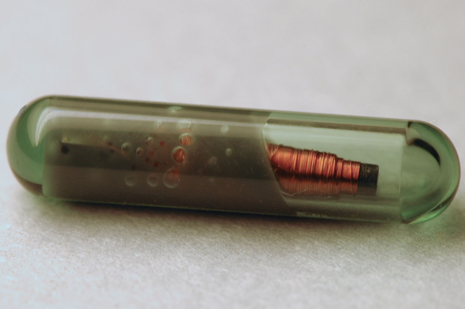 RFID capsule